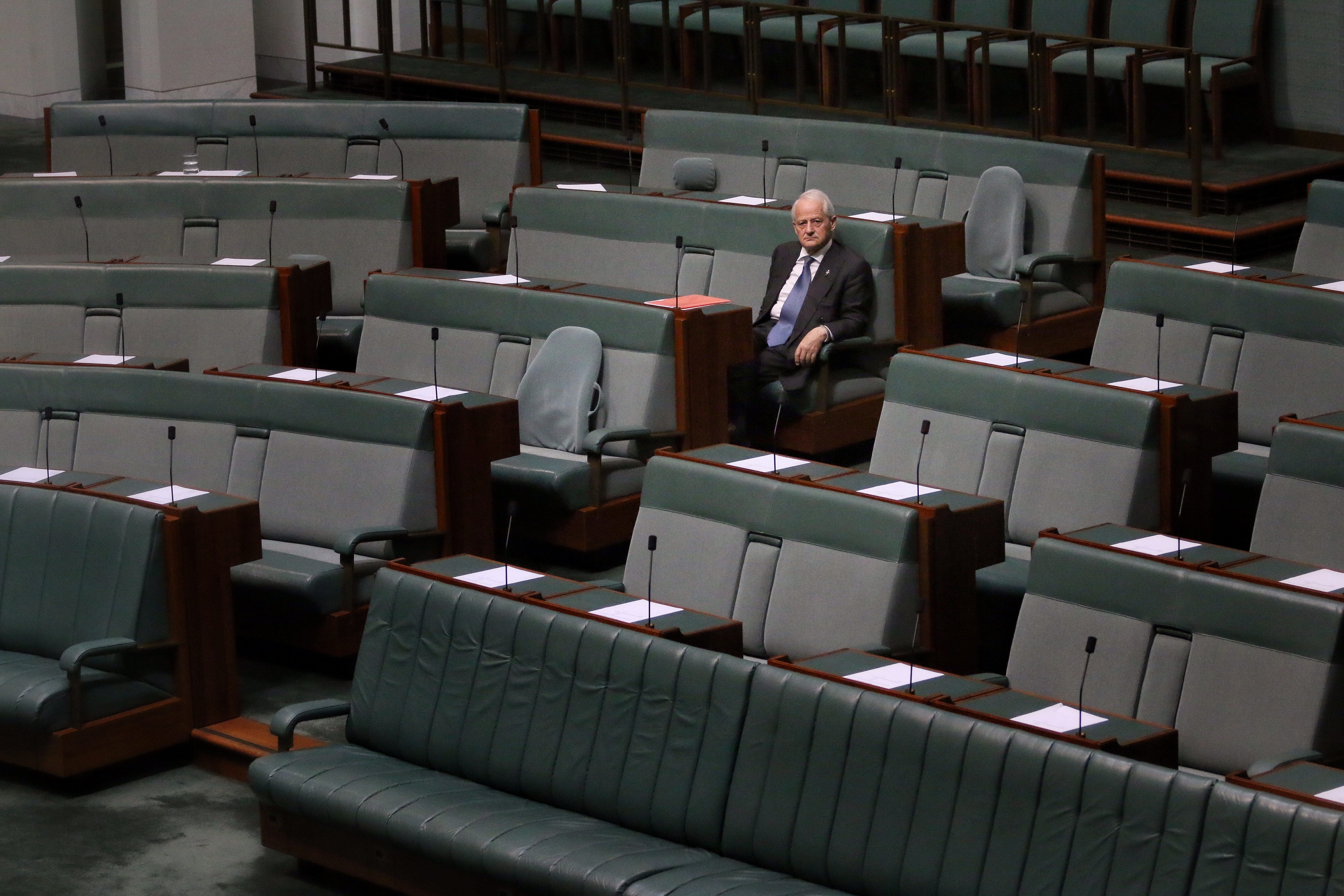 The Hon. Philip Ruddock, Father of the House, in Parliament